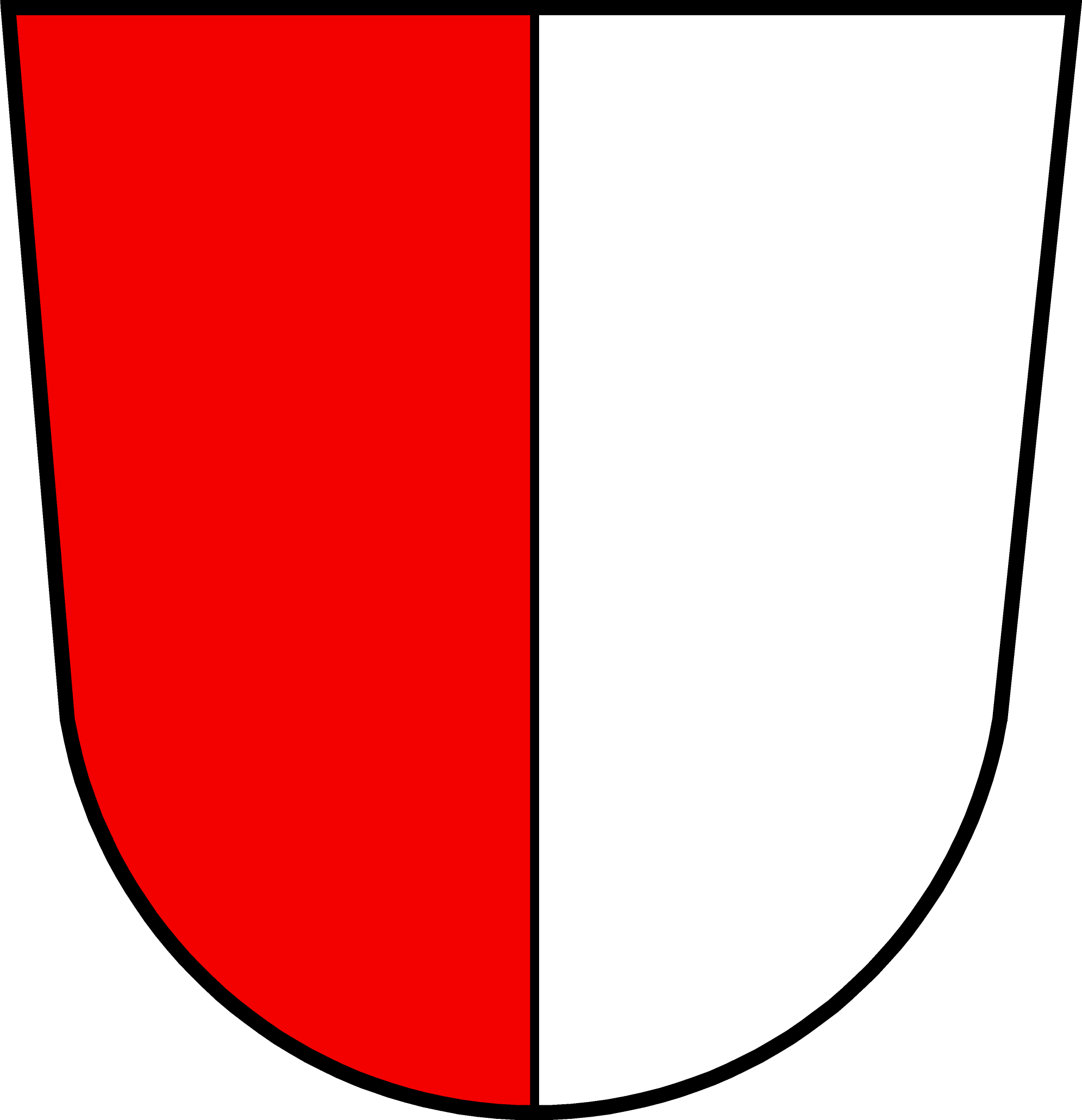 Coat of arms of the Prince-Bishopric of Augsburg. Blazon: Per pale gules and argent.